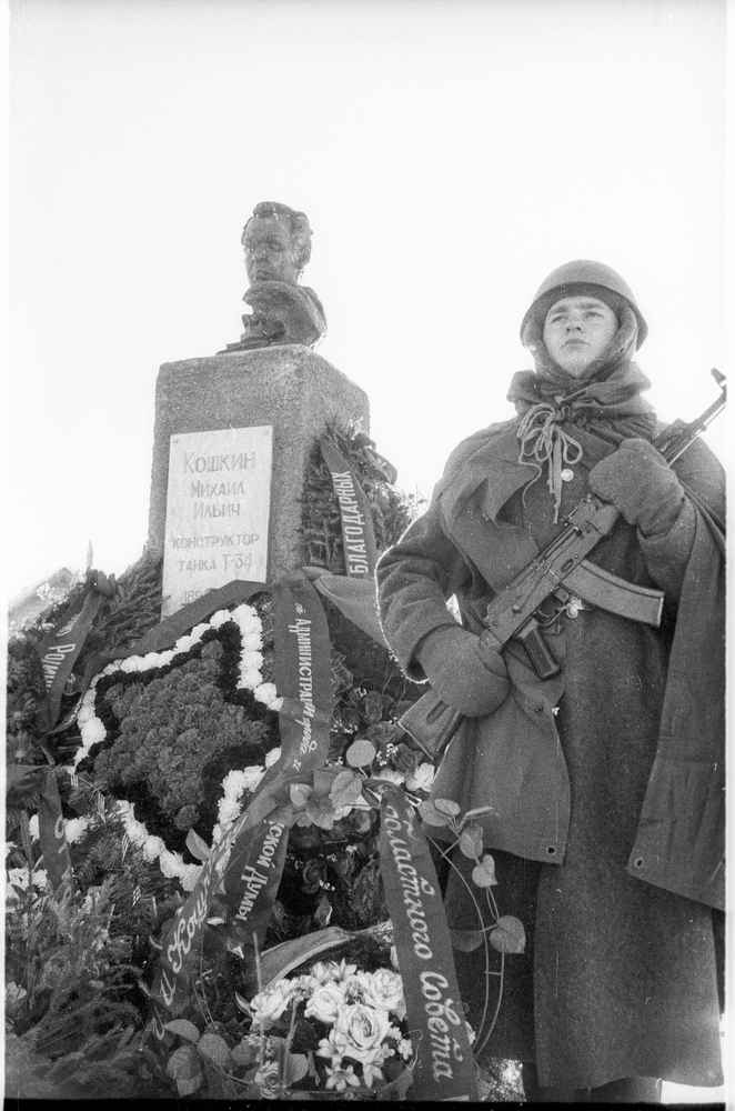 The opening of a bronze bust of the Hero of Socialist Labor Mikhail Ilyich Koshkin Brynchagi in the village. A soldier carries an honor guard at the monument.